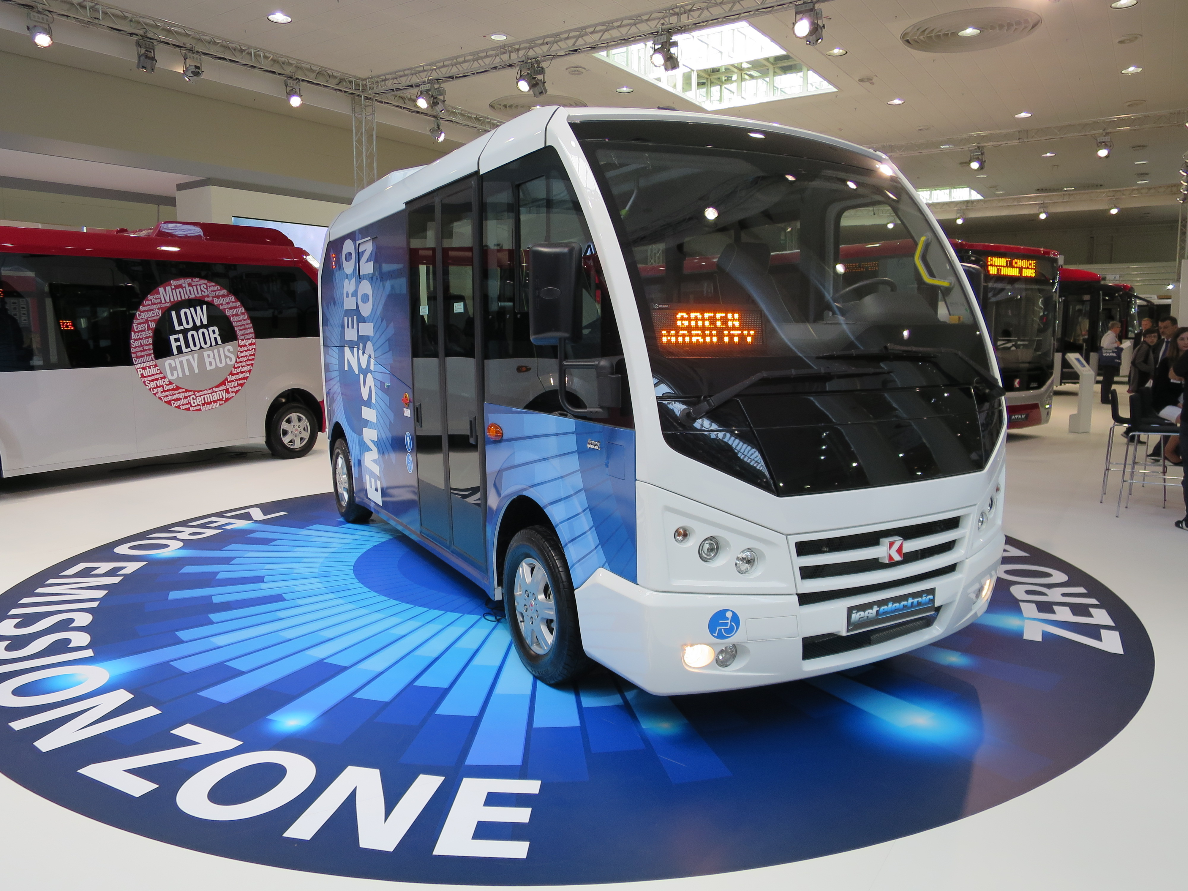 The making of this document was supported by Wikimedia Polska Association, within Wikigrant no. WG 2016-35. Karsan Jest electric